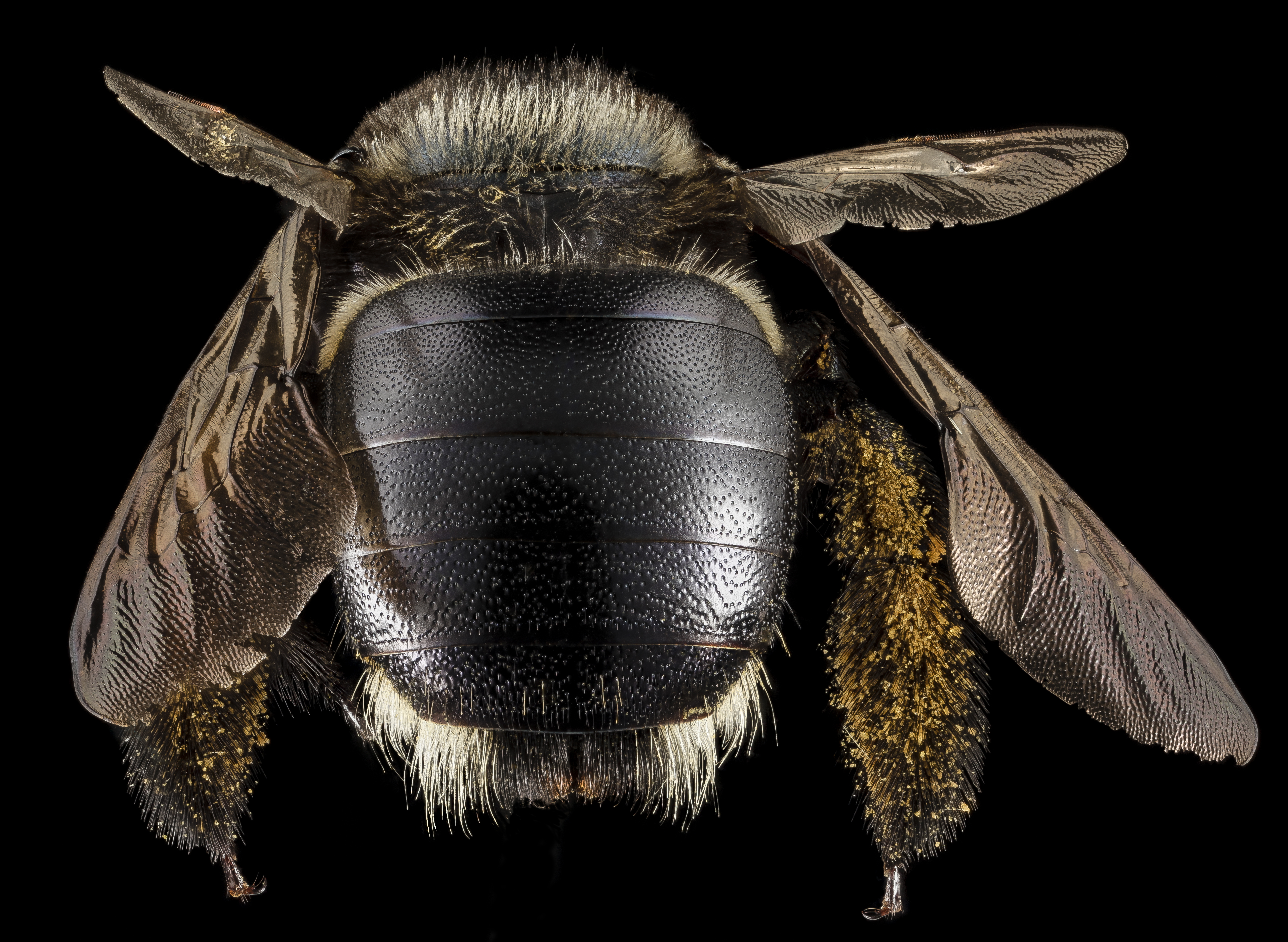 Here is a lovely carpenter bee from the southeastern part of the U.S., a bit smaller than X. viginica and as far as I know nests in twigs rather and does no damage to timbers (not that X. virginica does much in the way of real structural damage). This would be a wonderful giant bee if it could grown to the size of a poodle, perhaps some genetic modification is in order, as exothermic beings they would not eat as much food as dogs and cats and have the added benefit of being vegans. The world is full of possibilities. Collected by the fantastic Sabrie Breland in South Georgia Flatwoods. Photography by...Brooke Alexander. 00:13, 11 March 2015 (UTC)00:13, 11 March 2015 (UTC) 0 00:13, 11 March 2015 (UTC)00:13, 11 March 2015 (UTC) All photographs are public domain, feel free to download and use as you wish. Photography Information: Canon Mark II 5D, Zerene Stacker, Stackshot Sled, 65mm Canon MP-E 1-5X macro lens, Twin Macro Flash in Styrofoam Cooler, F5.0, ISO 100, Shutter Speed 200 The grass so little has to do, A sphere of simple green, With only butterflies to brood, And bees to entertain, - Emily Dickinson Contact information: Sam Droege 301 497 5840